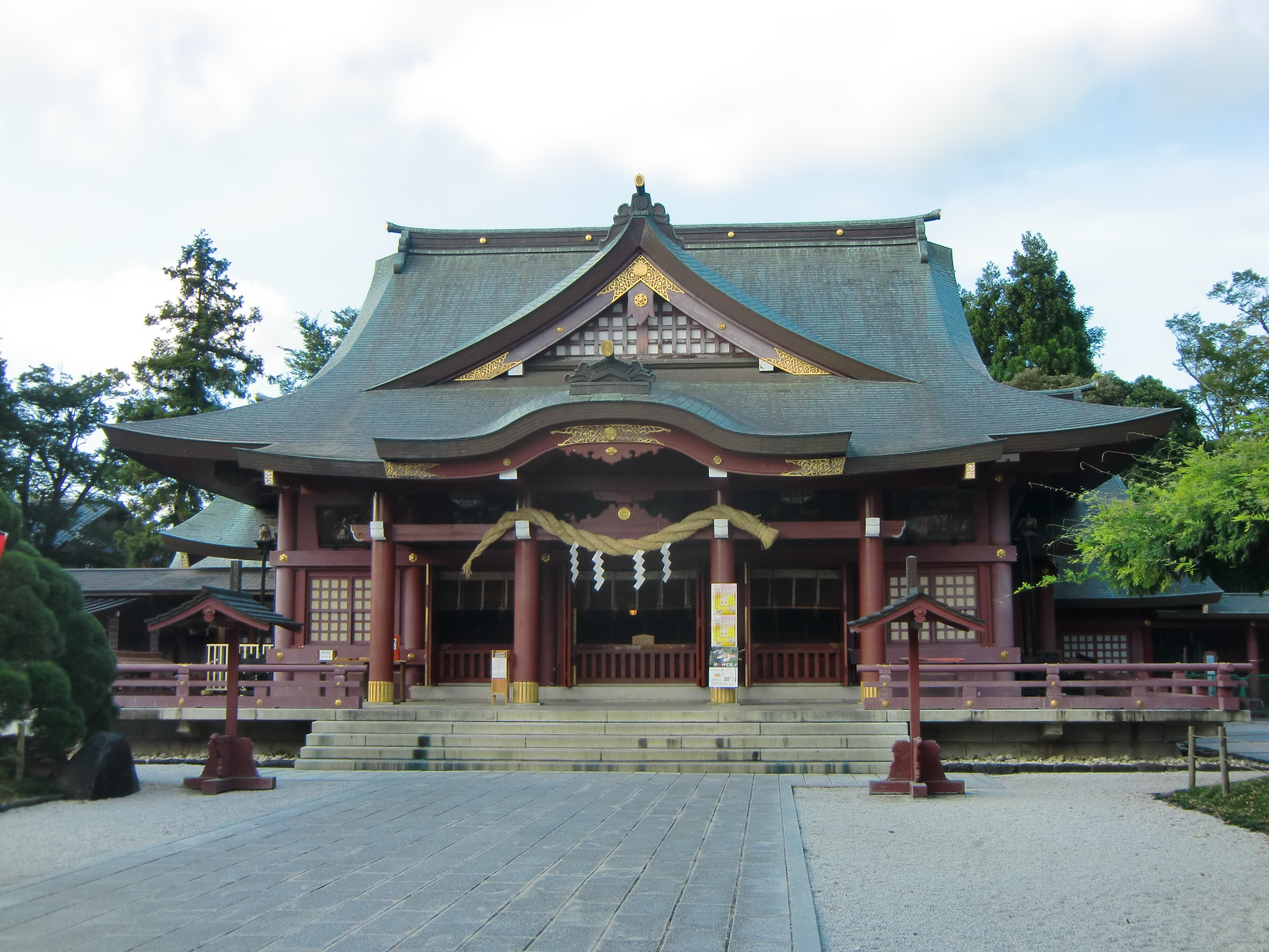 Haiden of Kasama Inari Shrine ,which is in Kasama city, Ibaraki prefecture, Japan.